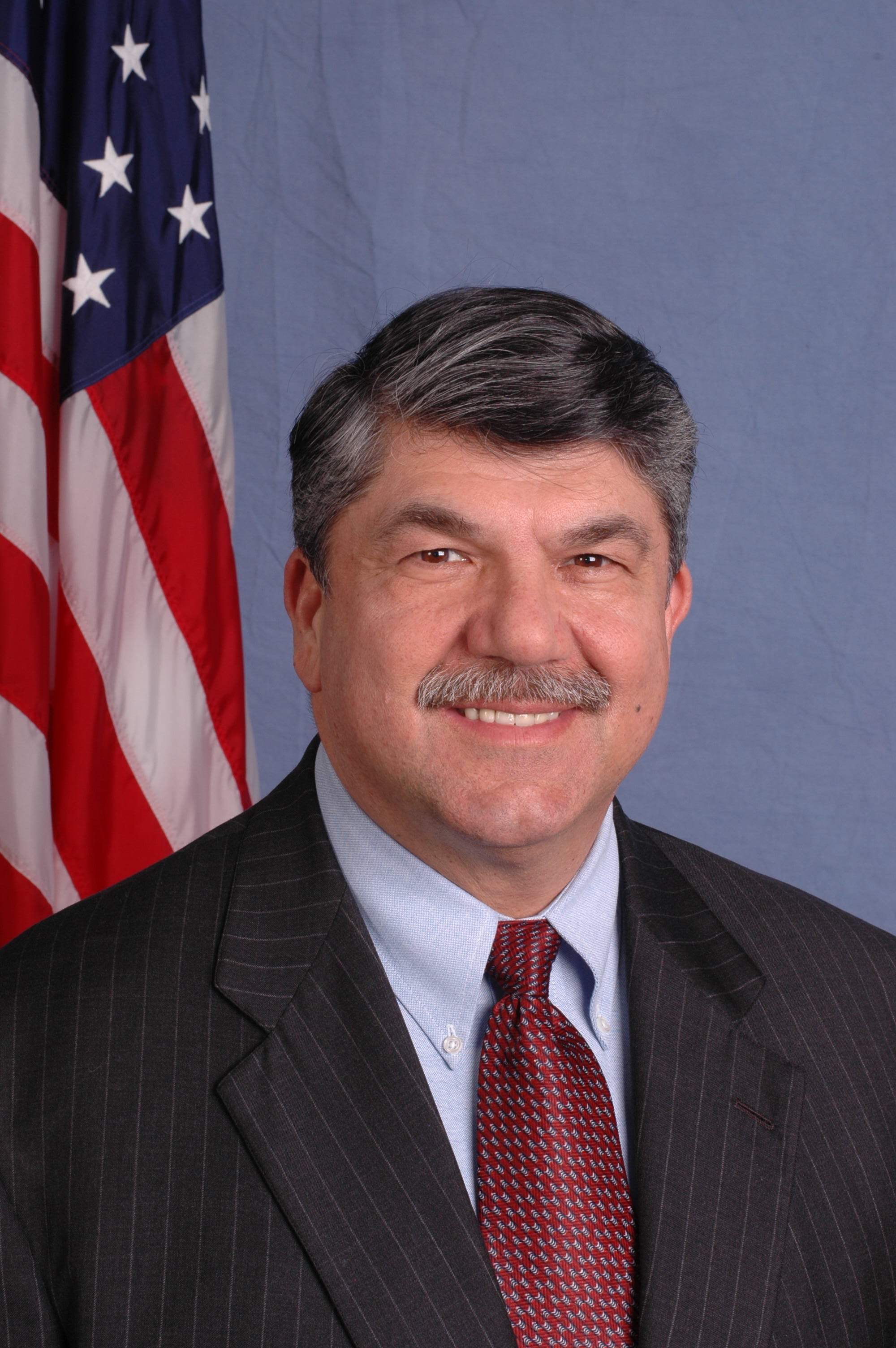 AFL-CIO portrait of Richard Trumka.